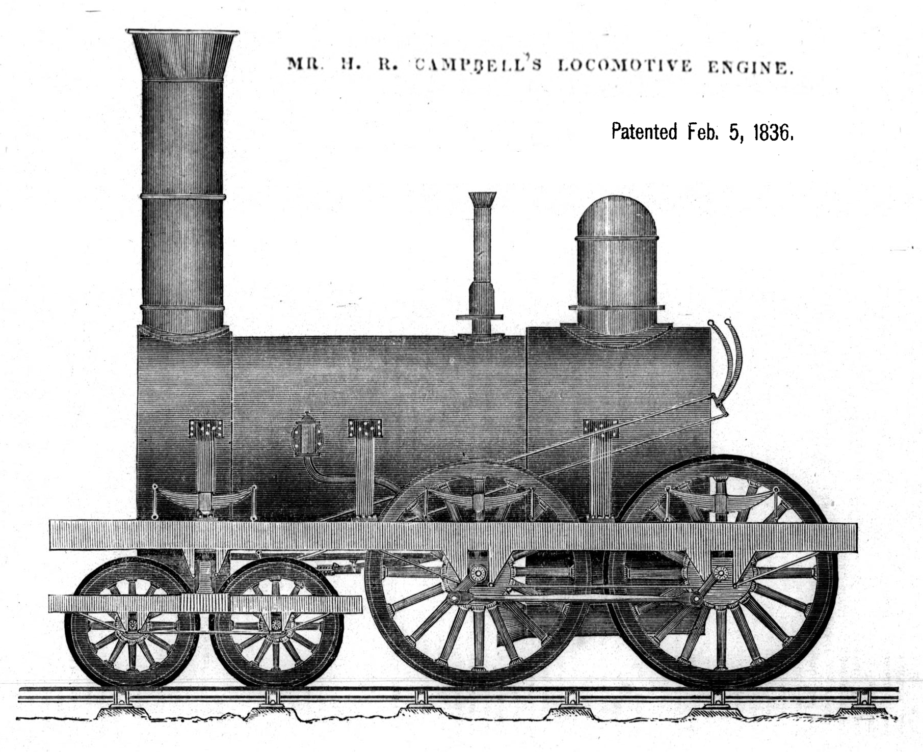 1836 picture, now public domain, of the first 4-4-0 steam locomotive